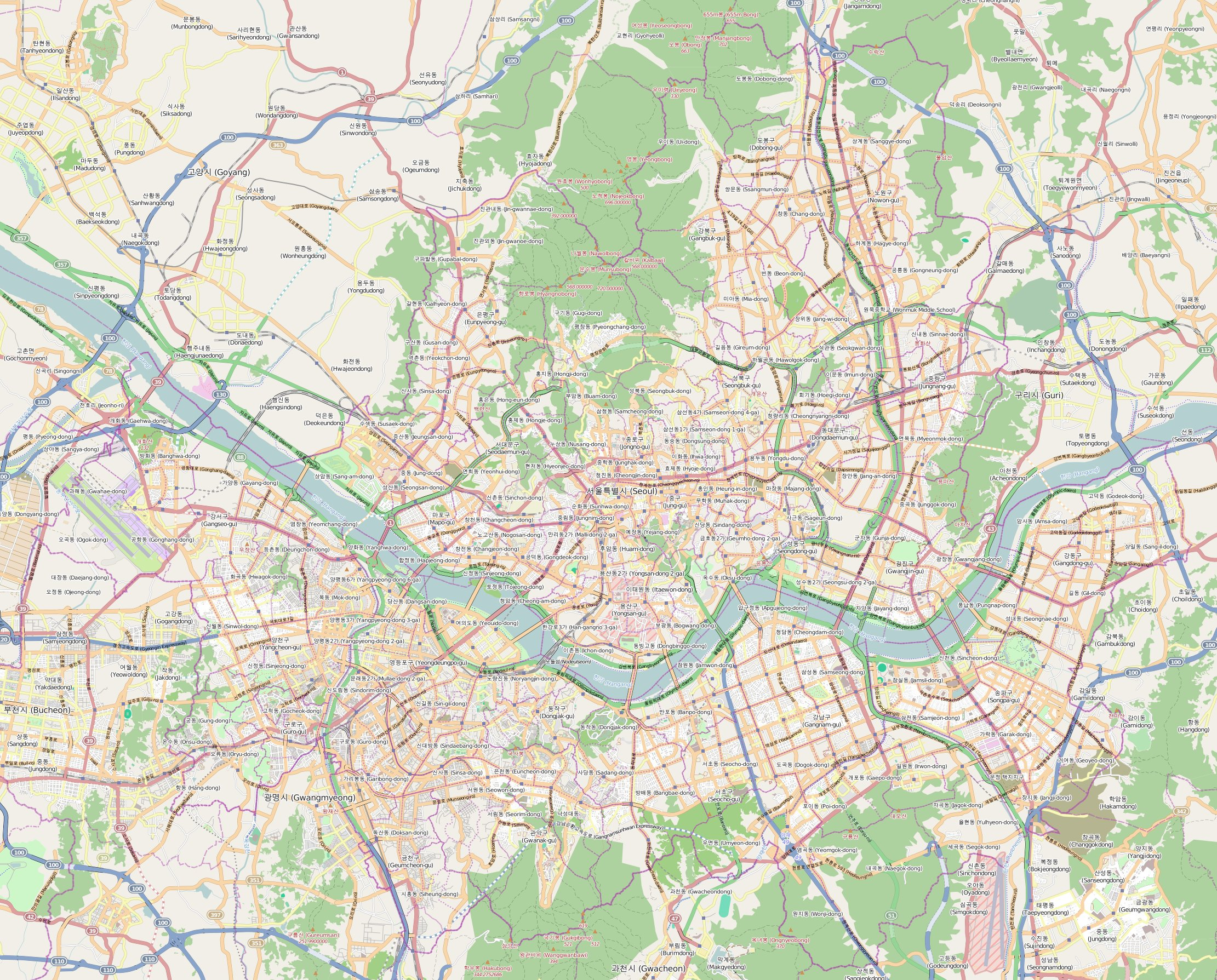 This map of Seoul was created from OpenStreetMap project data, collected by the community. This map may be incomplete, and may contain errors. Don't rely solely on it for navigation.